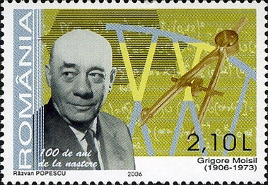 Stamps of Romania, 2006